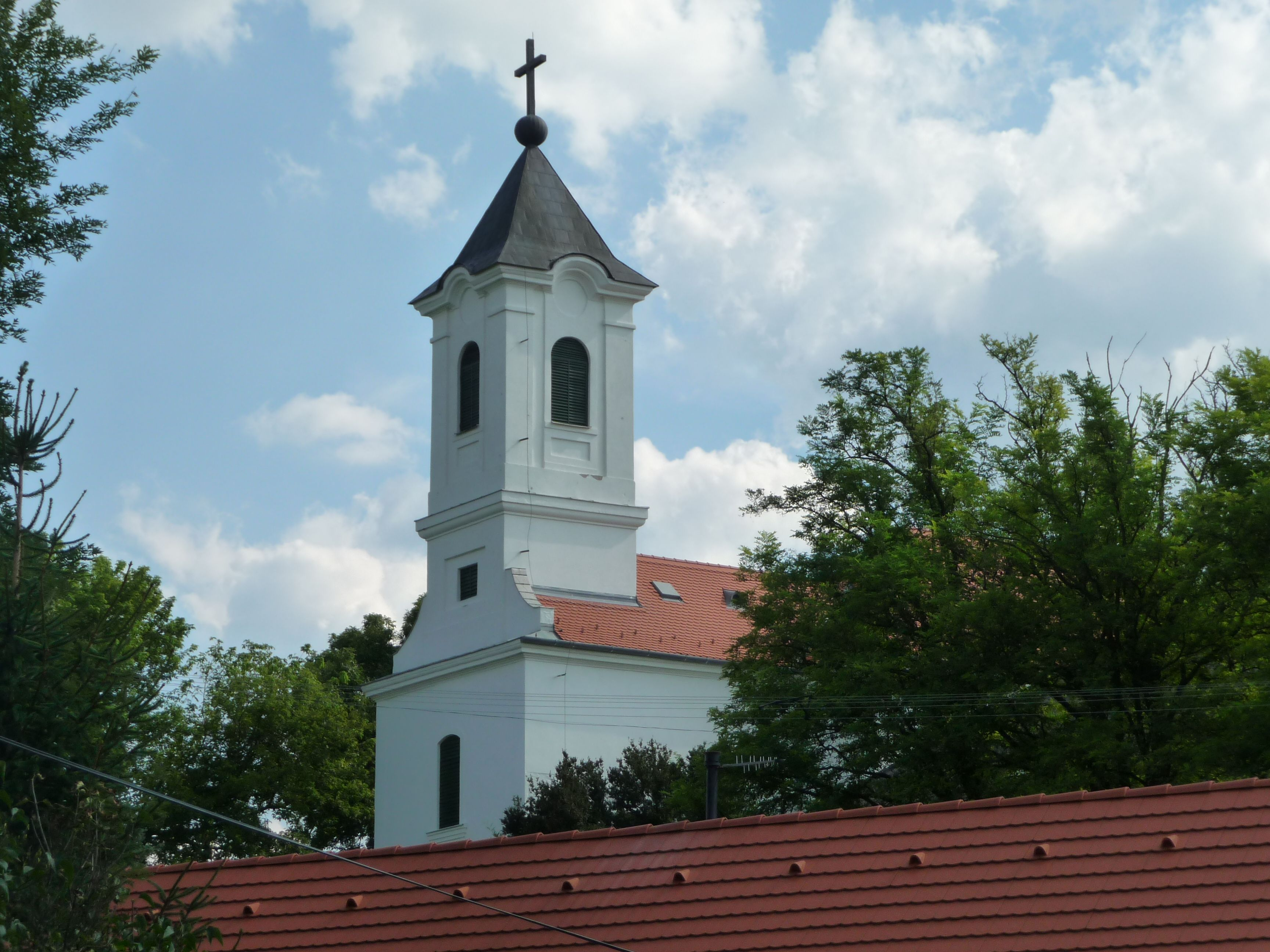 Roman Catholic Church in Nagykökényes, Hungary This is a photo of a monument in Hungary. Identifier: 5798